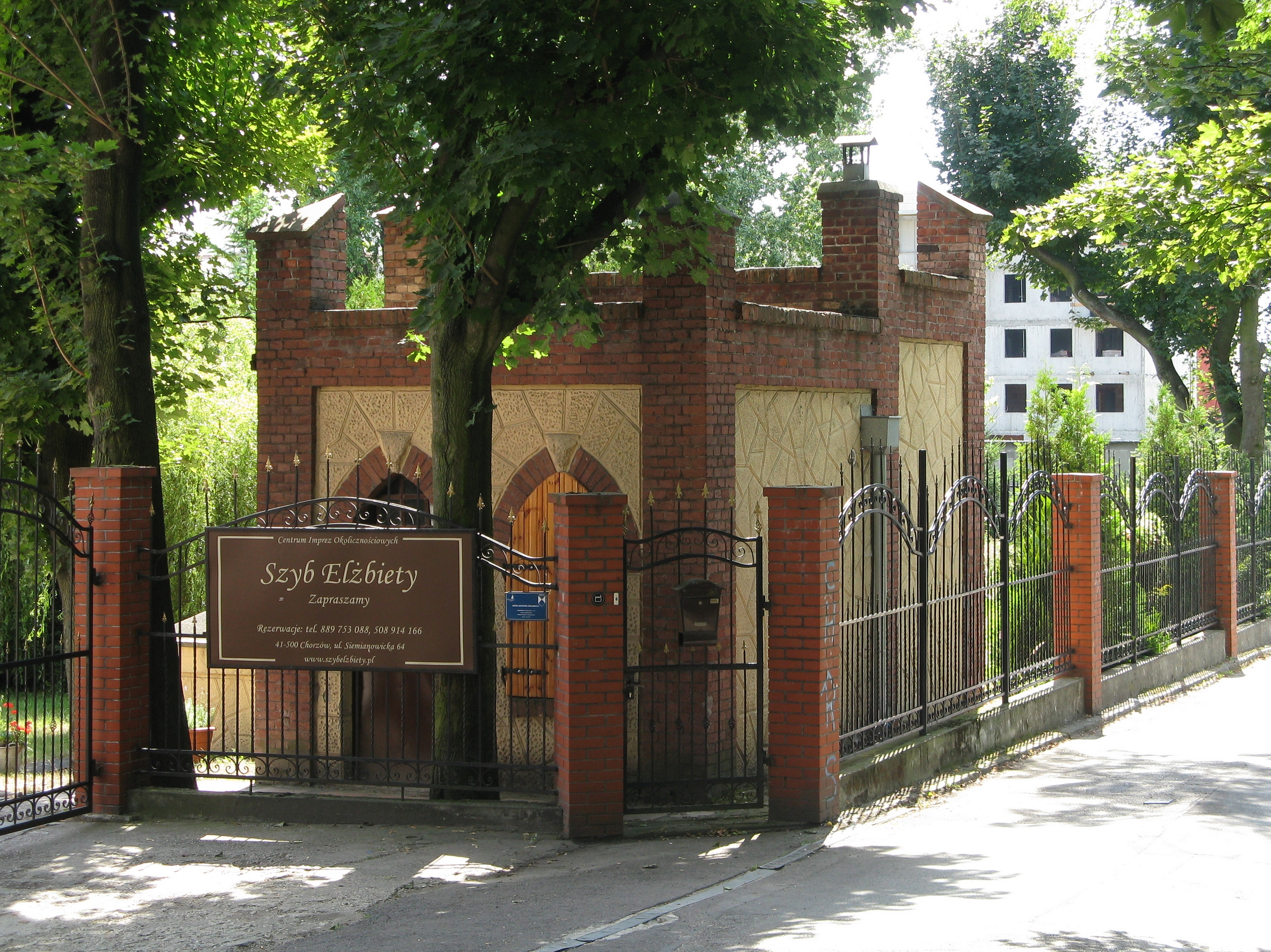 Elżbieta shaft complex in Chorzów, lodge building Wikidata has entry Q9352522 with data related to this item.